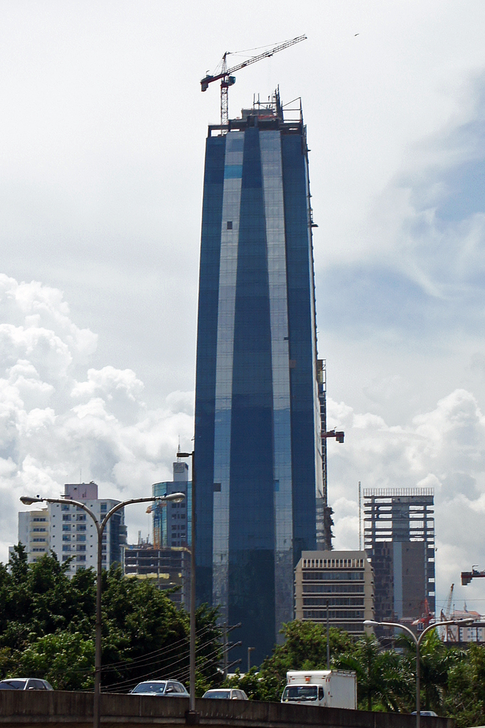 Skyscraper under construction in Panama city